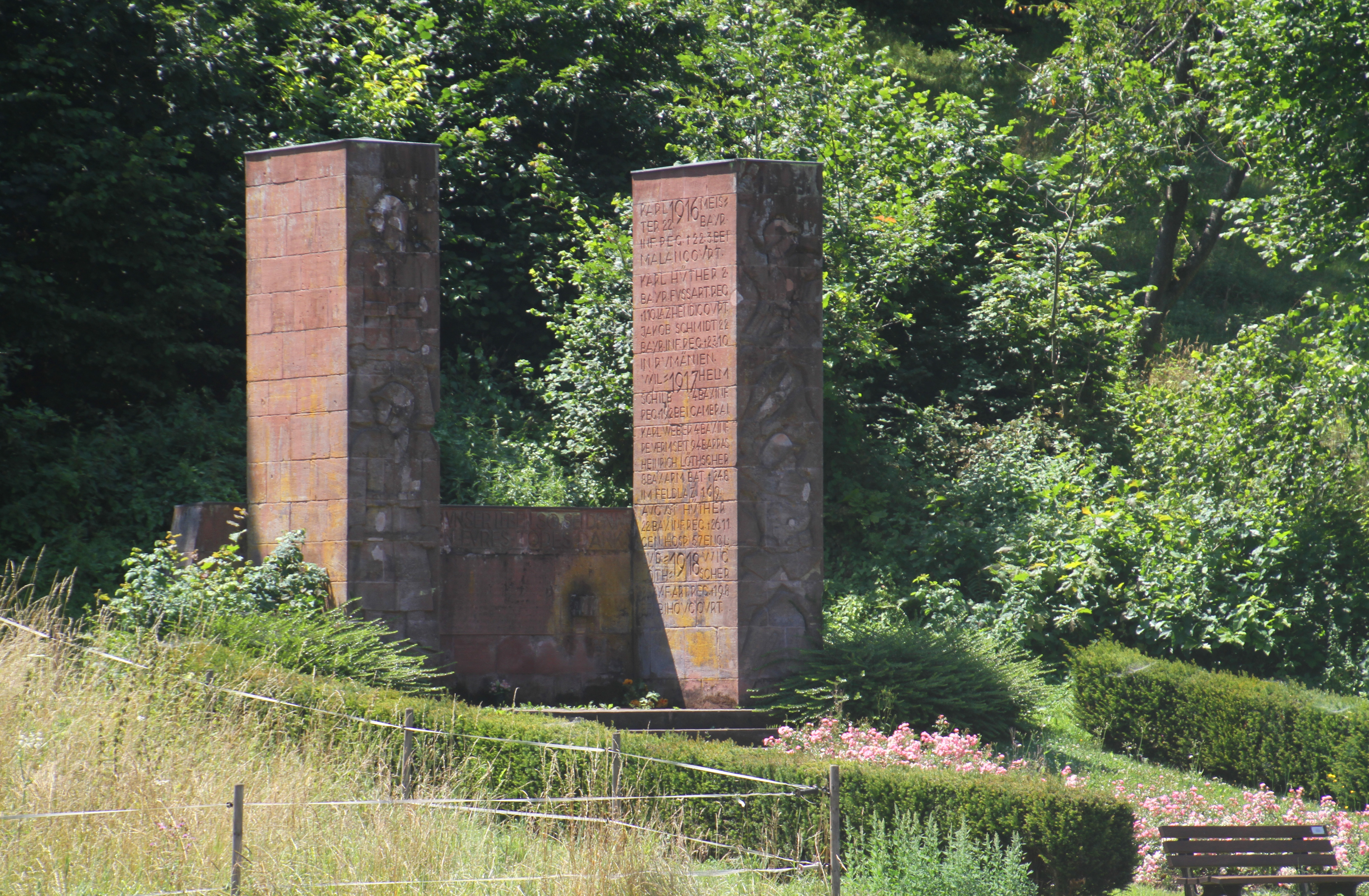 War memorial in Mauschbach